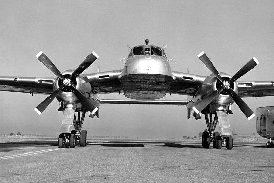 Front view of the Fairchild XC-120 "Packplane" without its modular cargo container.